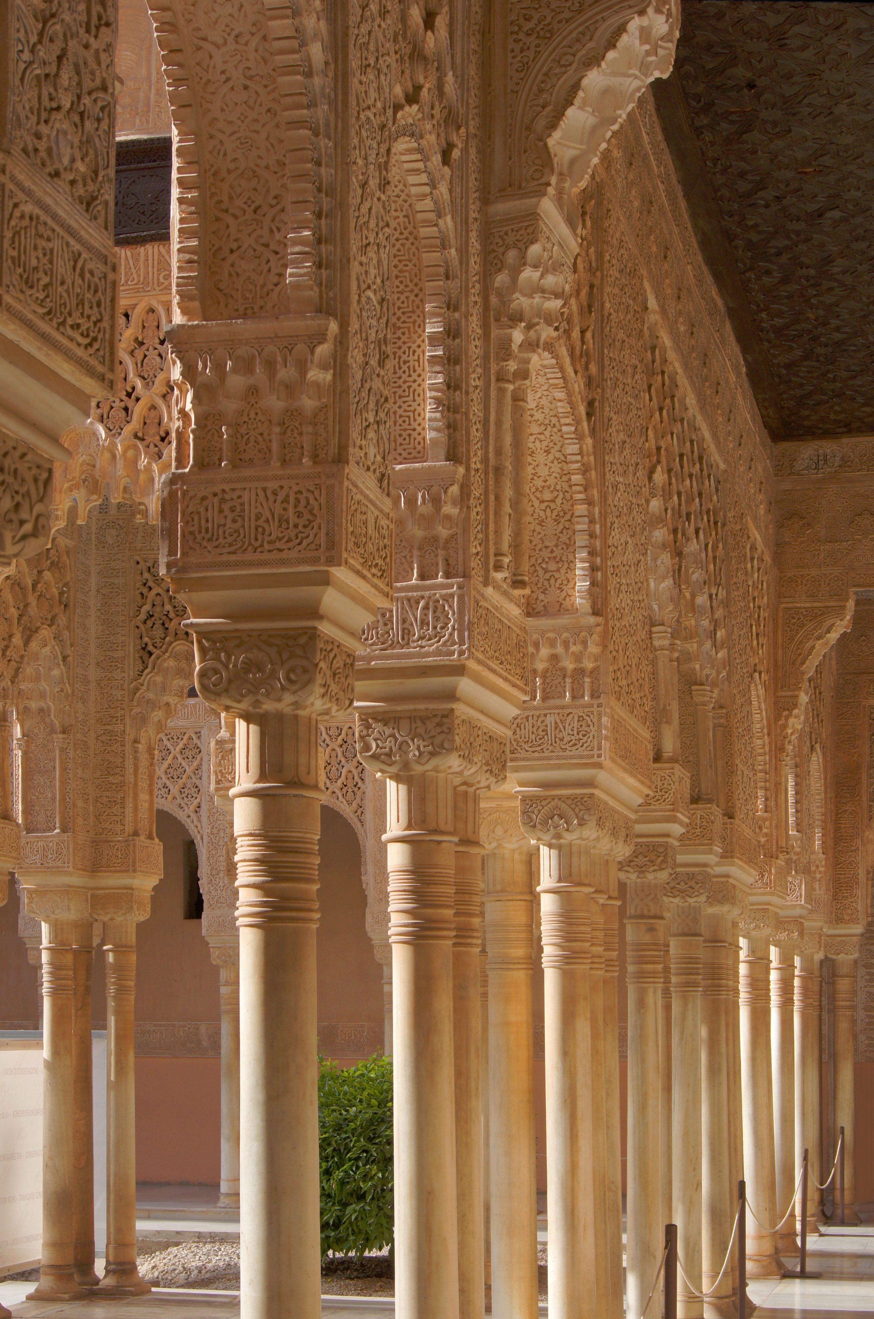 columns, arches and capitals in Lions Palace of Alhambra, Granada, Spain